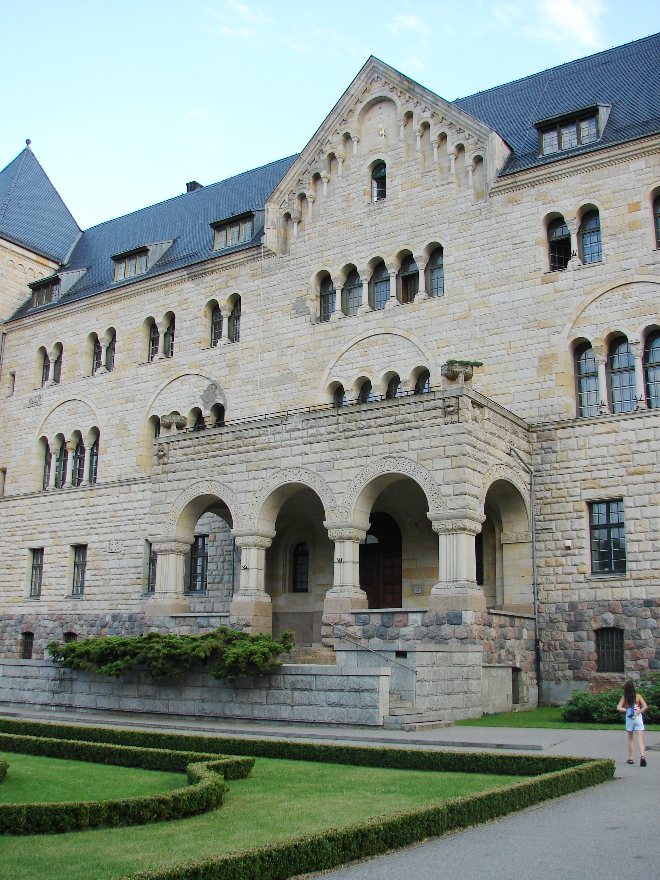 Former main entrence for visitors in Poznań Imperial Castle